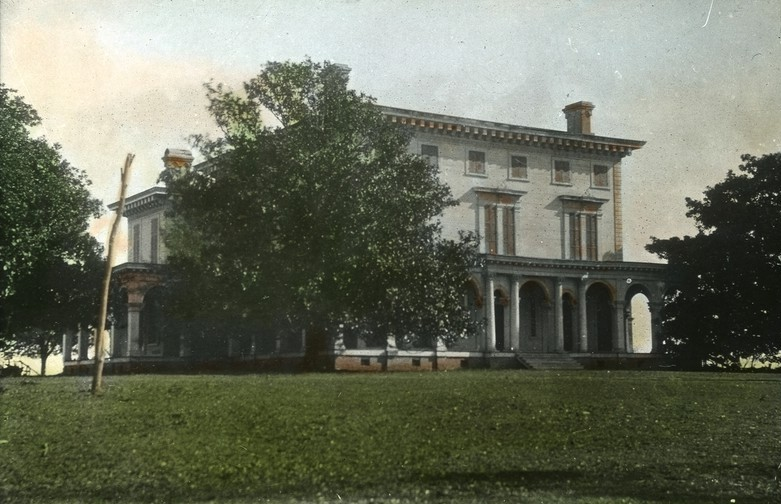 Hand-colored lantern slide of the mansion at Annandale Plantation in Mannsdale, Madison County, Mississippi. Built from 1857 to 1859 by Jacob Larmour for Margaret Johnstone. Design taken from Plate IV of Minard Lafever's Architectural Instructor, published in 1856. Largely unoccupied after Mrs. Johnstones death in 1880, it burned to the ground on September 9, 1924. A Classical Revival style replacement was later built at the site.